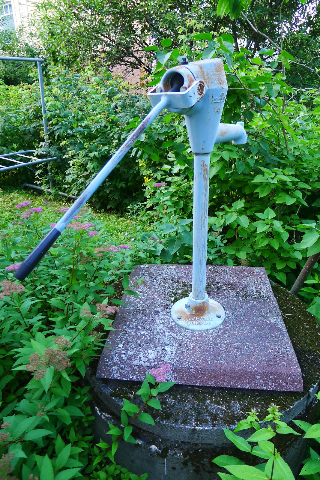 Nira hand pump for a well.